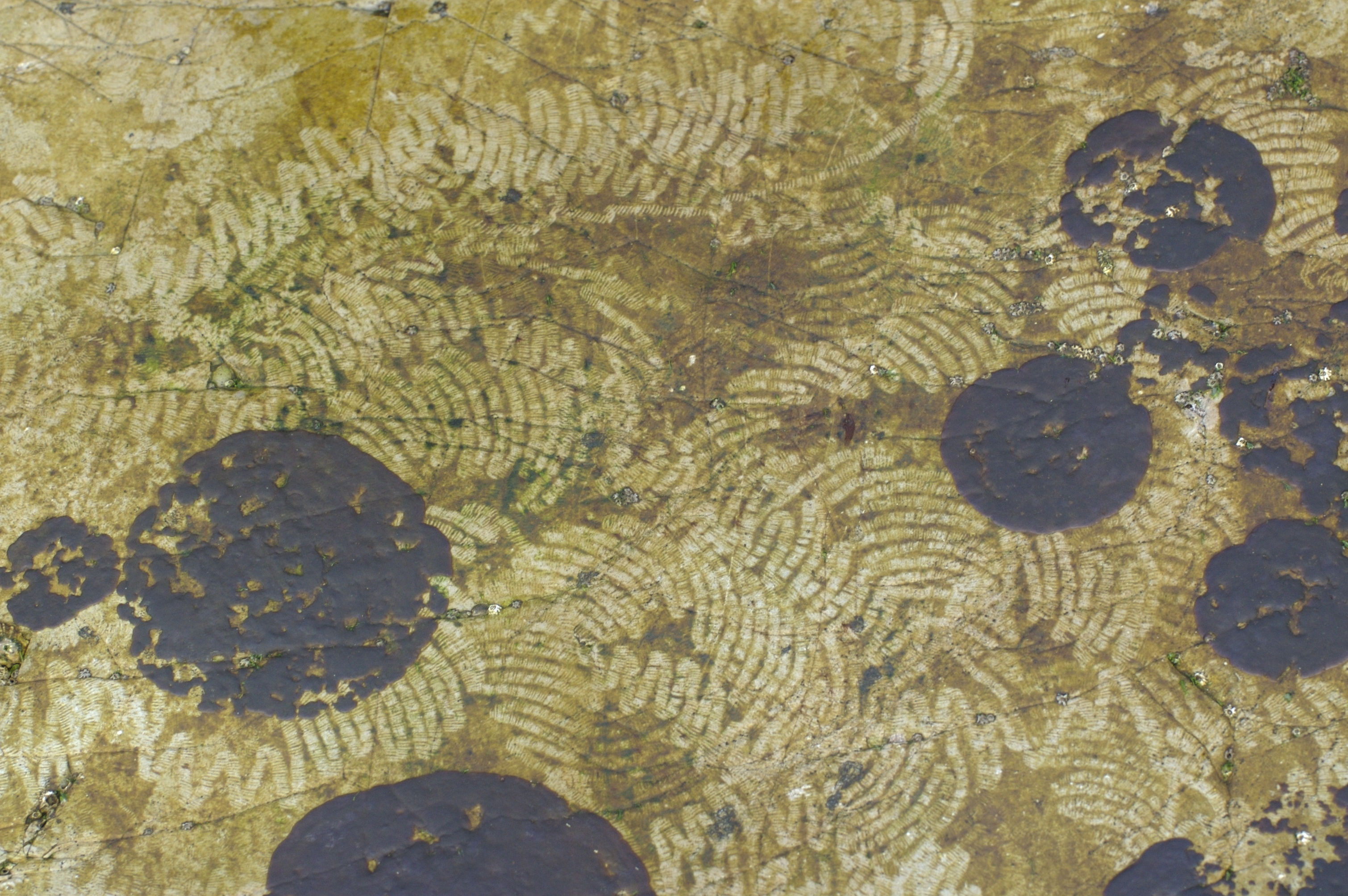 Photo of marks left by Owl Limpets, Lottia gigantea. The dark ovals are tar-spot algae, Mastocarpus papillatus. The zig-zag marks are grazing trails -- these marks are left by the radula of the animal as it scrapes microalgae off of the rock surface.